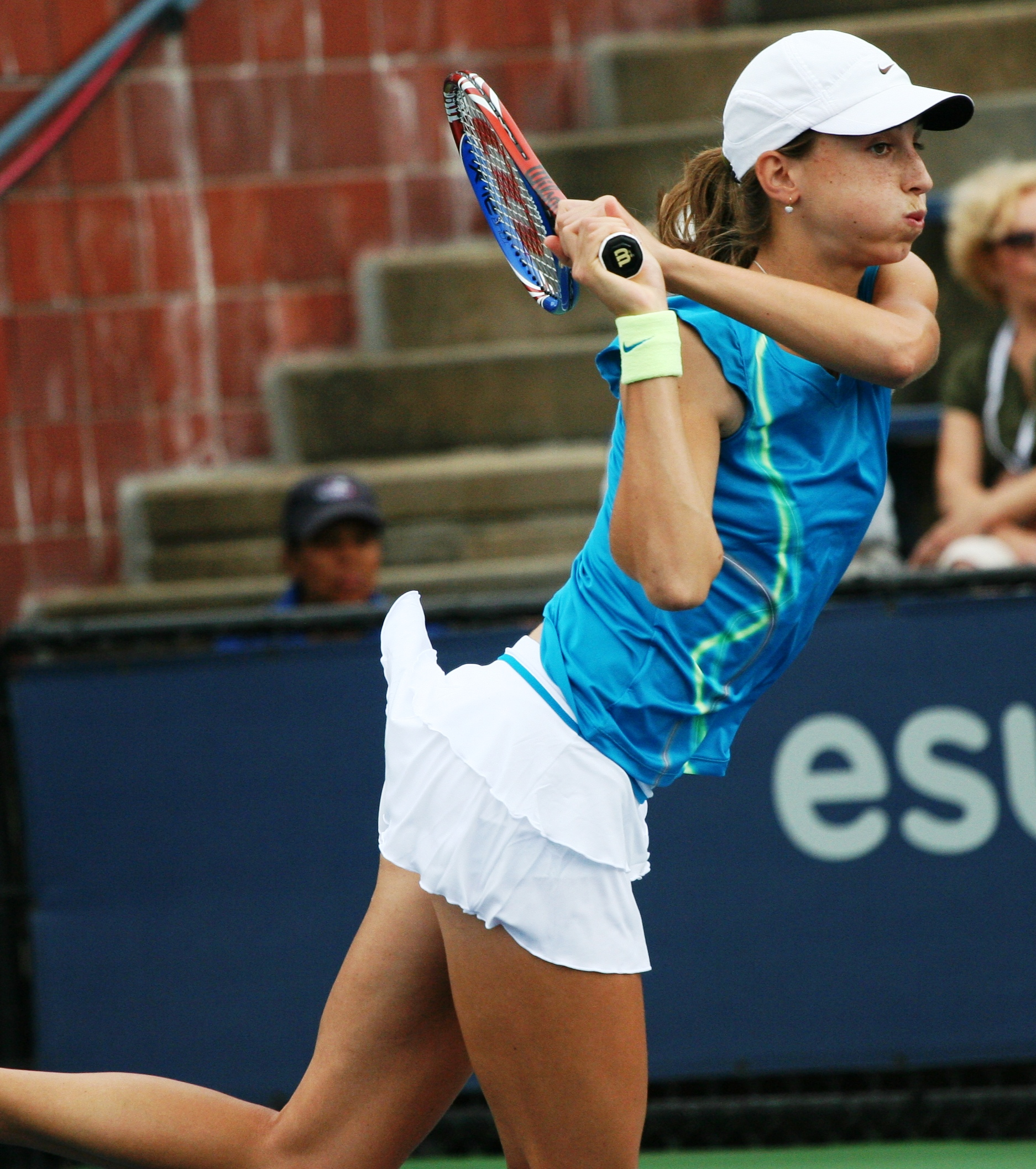 U.S. Open Friday, Sept. 3, 2010